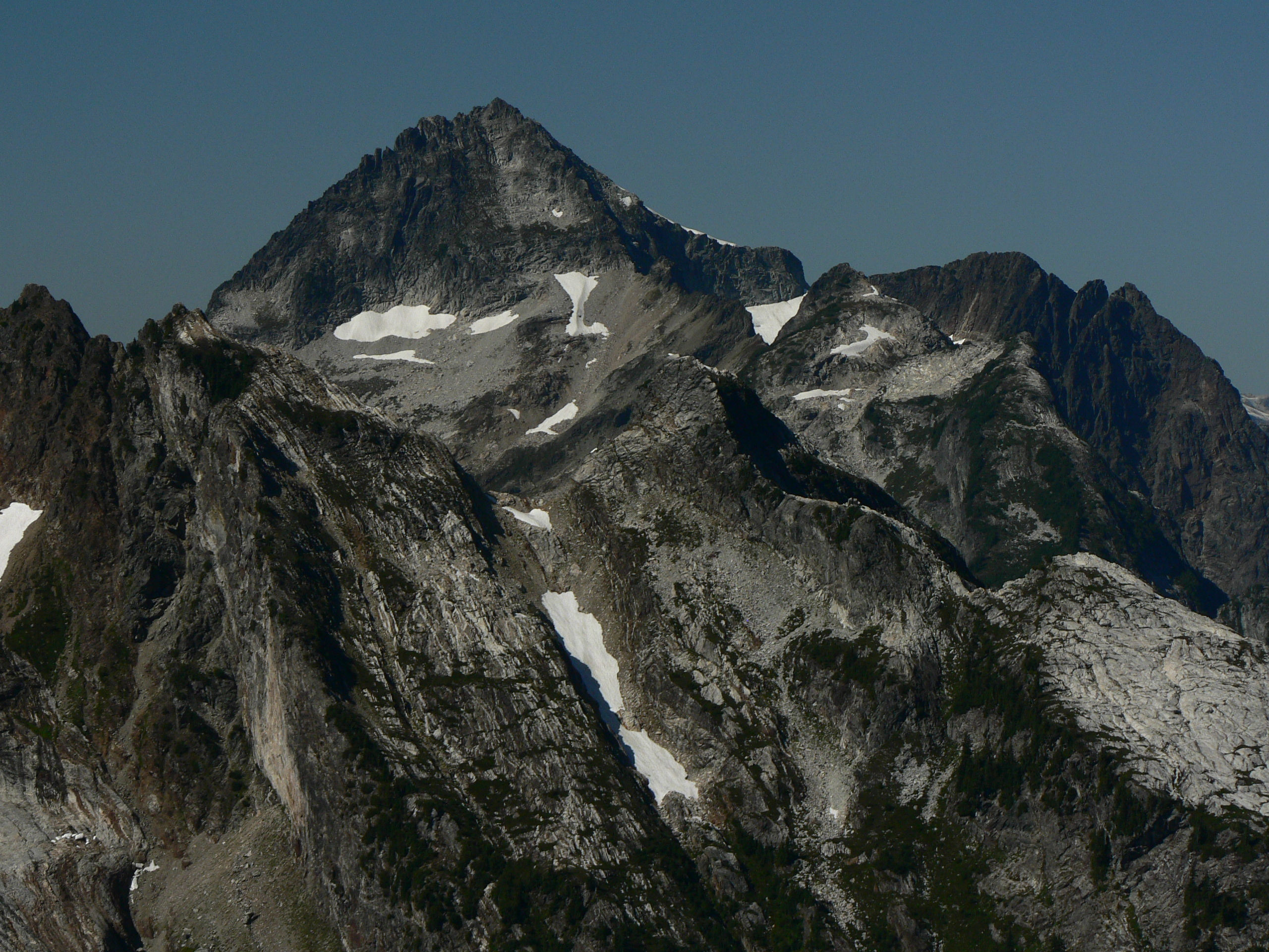 Mount Despair 7292 feet (2223 m)